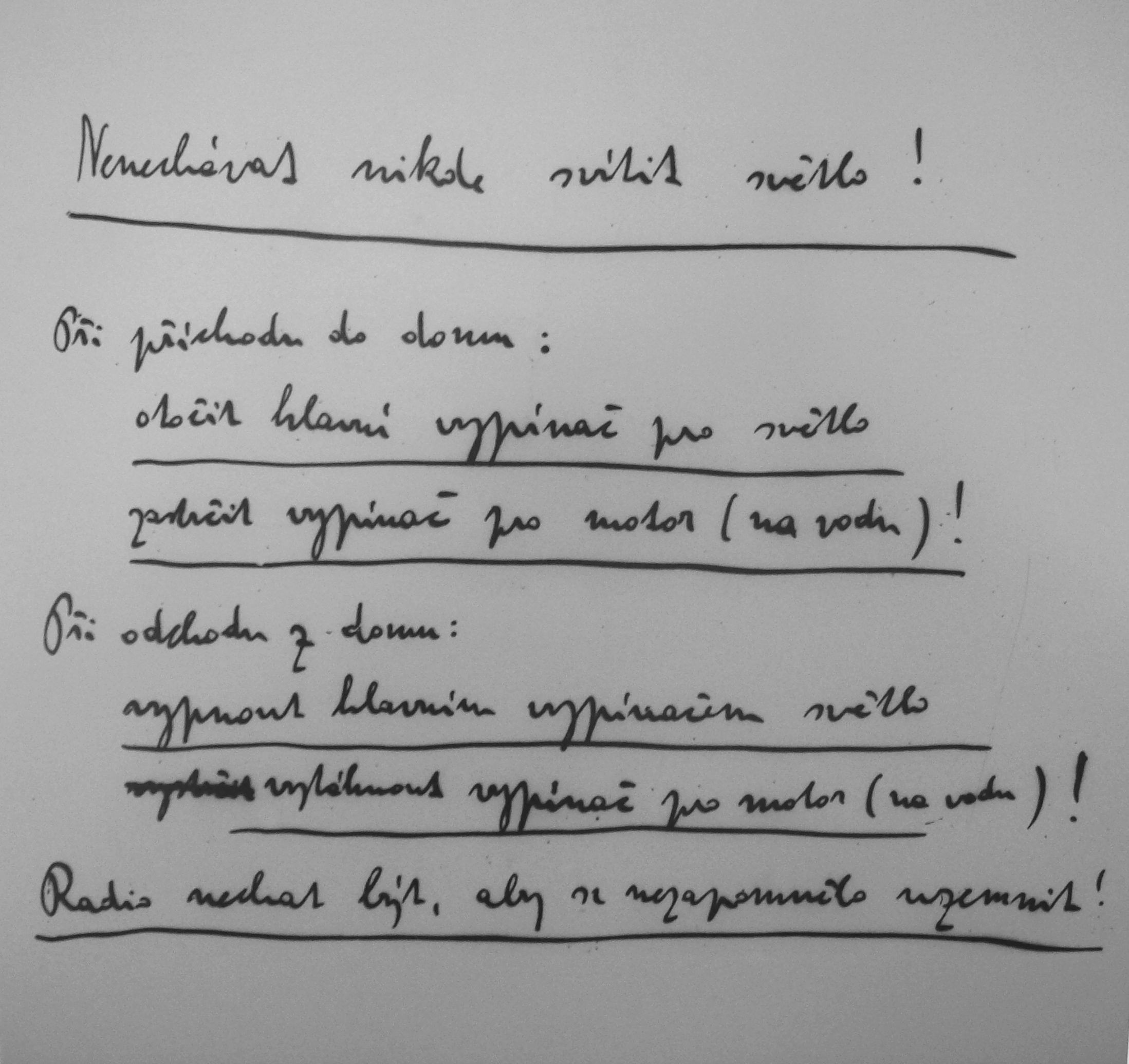 Karel Čapek, manuscript